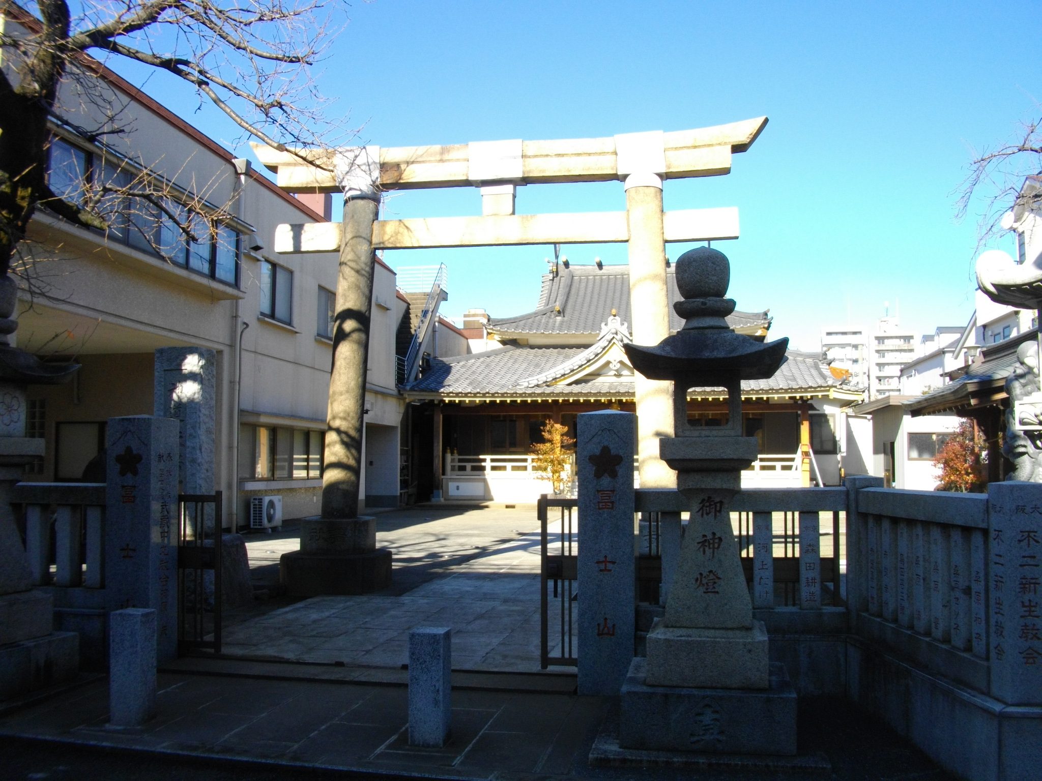 Fusokyo Headquarters